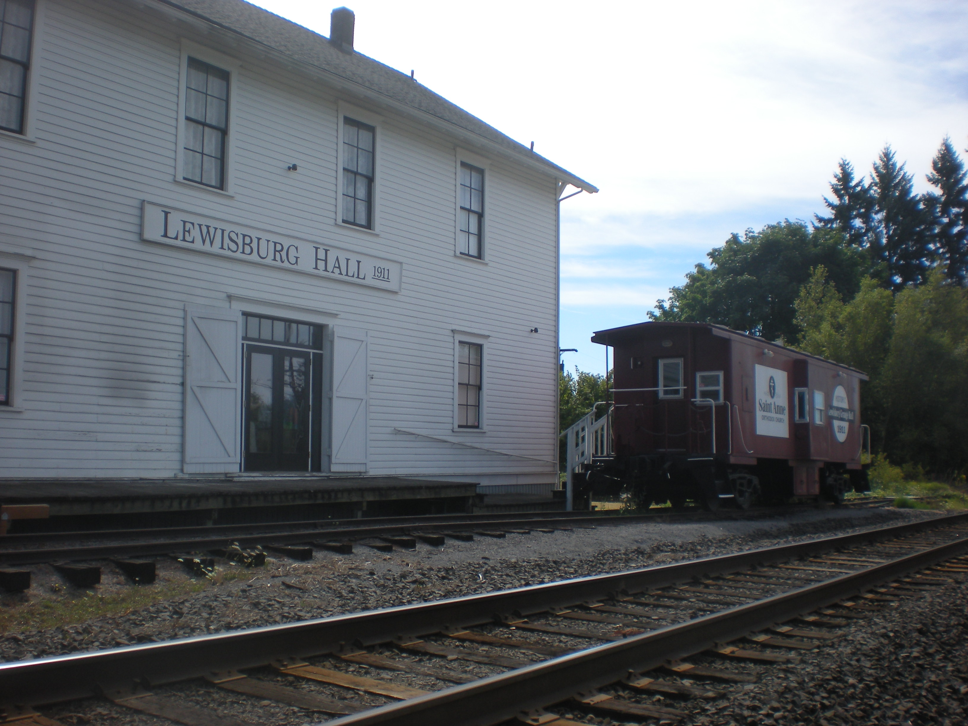 This is the Historic Lewisburg Grange Hall in Lewisburg, Oregon. It was also known as the Mountain View Grange. Built in 1911, it was added to the National Register of Historic Places in 1991. The building is currently being used as an Eastern Orthodox church and special events center.